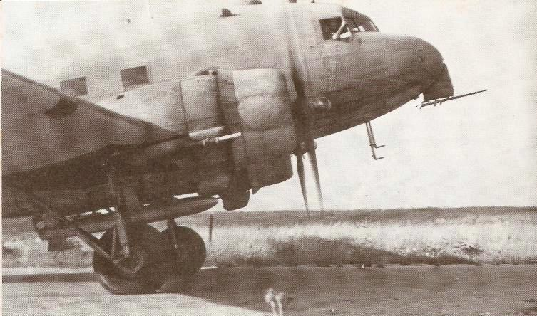 testing Luz missiles launch from Douglas DC-3 Airliner (1959)